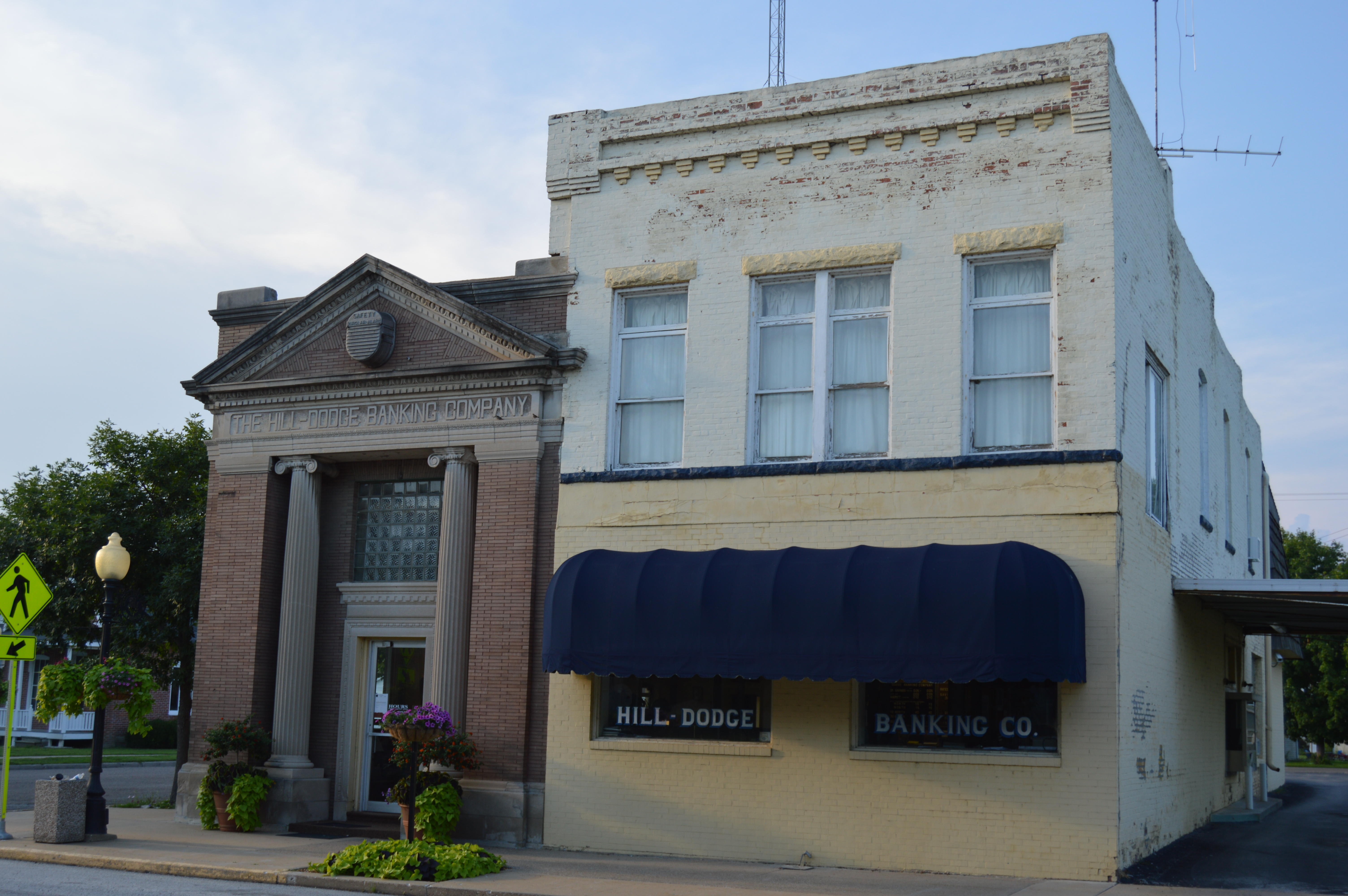 Two buildings of the Hill-Dodge Banking Company, located on the northeastern corner of the junction of Fifth and Main Streets in Warsaw, Illinois, United States. They are part of the Warsaw Historic District, a historic district that is listed on the National Register of Historic Places.